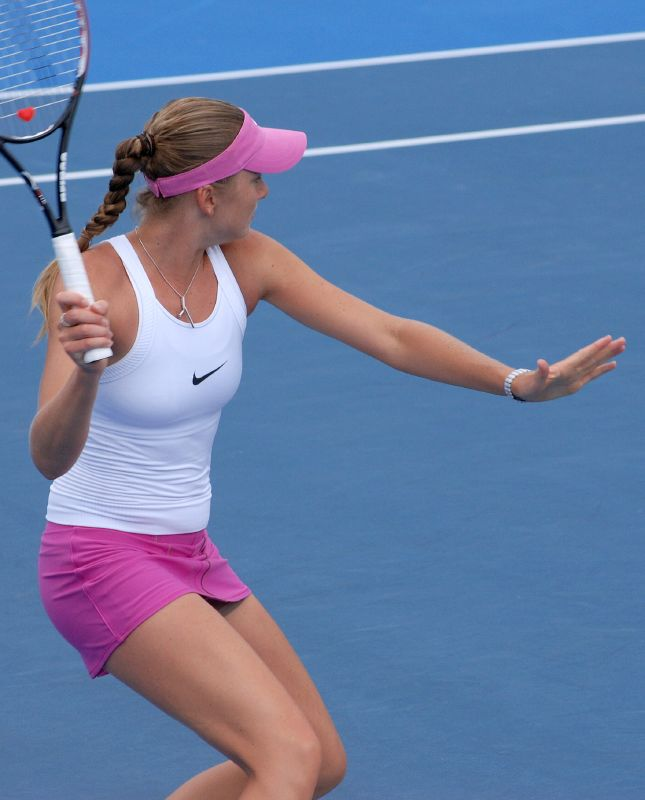 Daniela Hantuchová forehand.